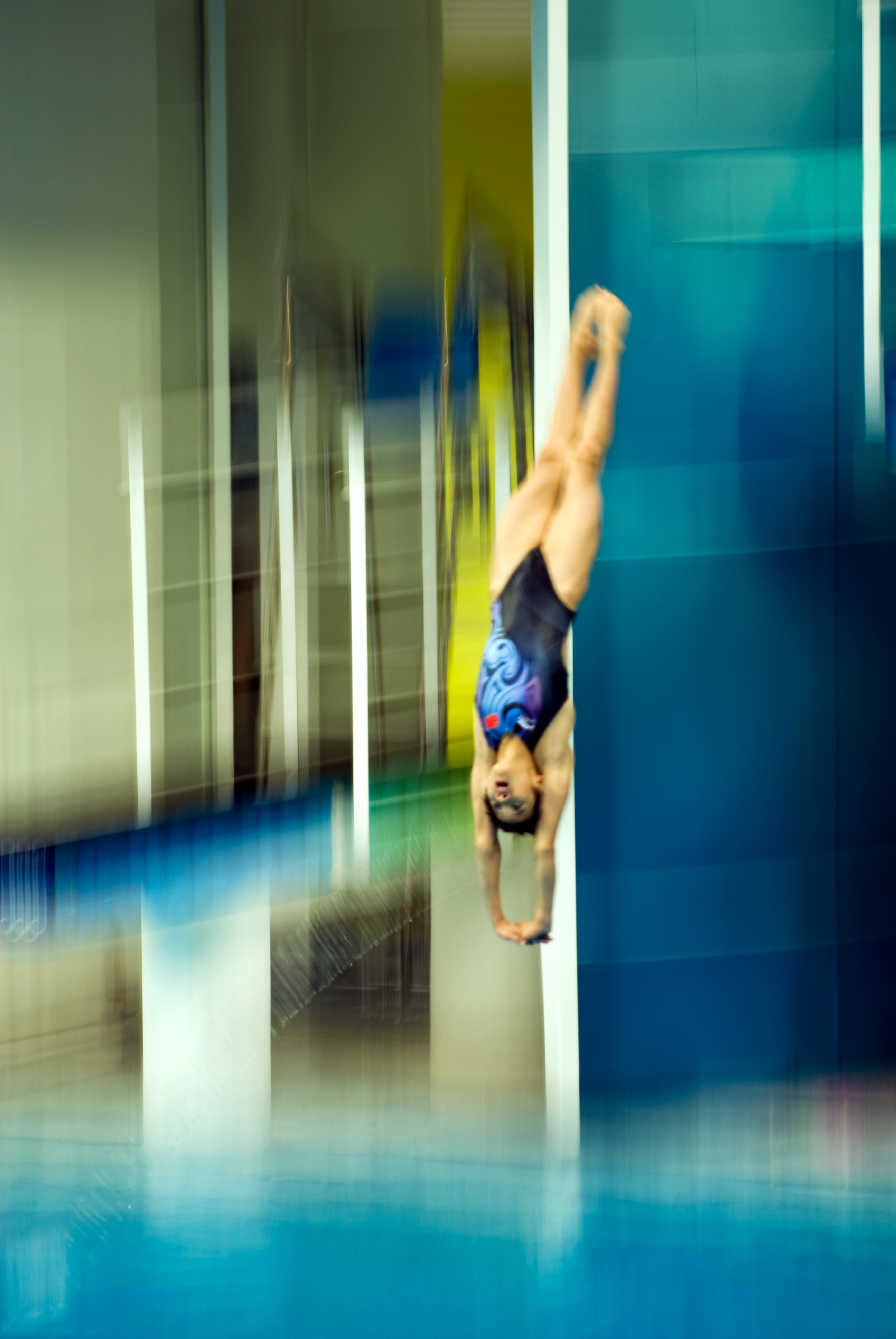 This shot is pretty much straight out of the camera. I only corrected some color on this shot (and not much at that).